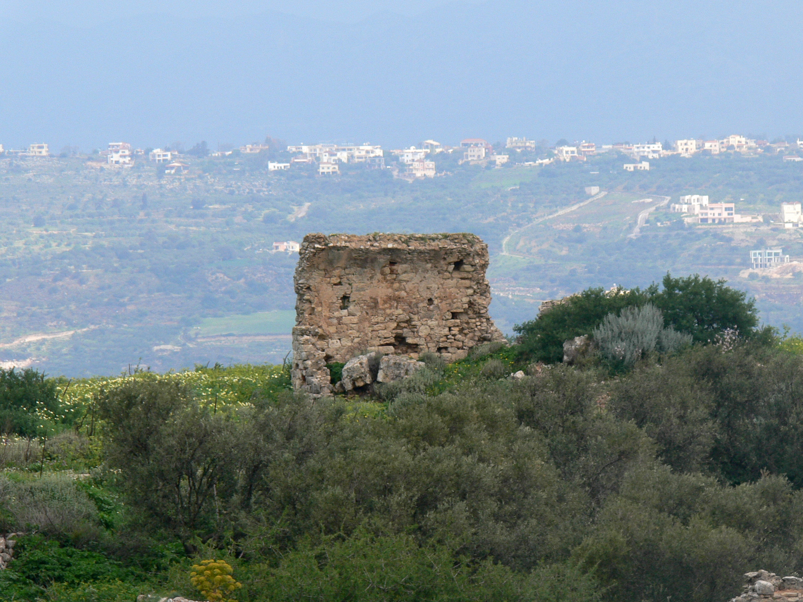 Aptera, Crete. Ancient ruin with view to Akrotiri peninsula.